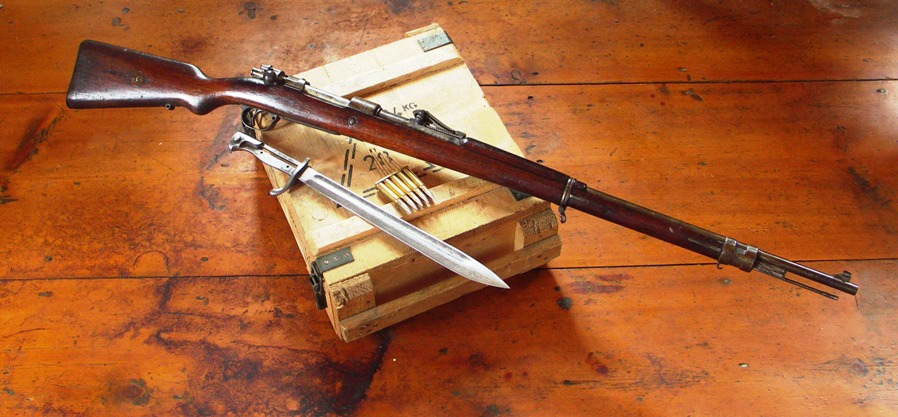 Mauser M98 Rifle with Bayonet, from the collection of Vaarok, photograph released for the public good. A Gewehr 1898 produced by "Deutsche Waffen und Munitionsfabriken" in 1905, with a regimental stock tag indicating issue to the 114th Badisches Infanterie Regiment. Pictured with a five-round stripper clip of 8x57IS standard ammunition, and a SS98/05 "butcher blade" type bayonet, which is regrettably missing the grip panels.